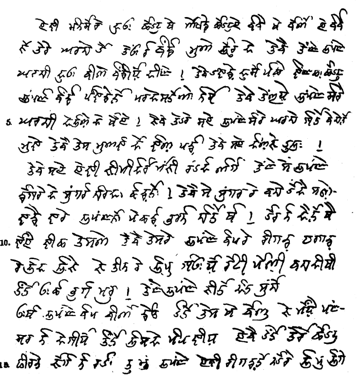 Specimen in Mahasu(Kiunthali) language